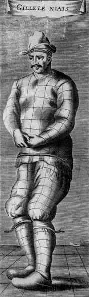 Gilles le Niais, anonymous engraving c. 1649: photograph of original in Cabinet des Estampes, Bibliotheque Nationale, Paris